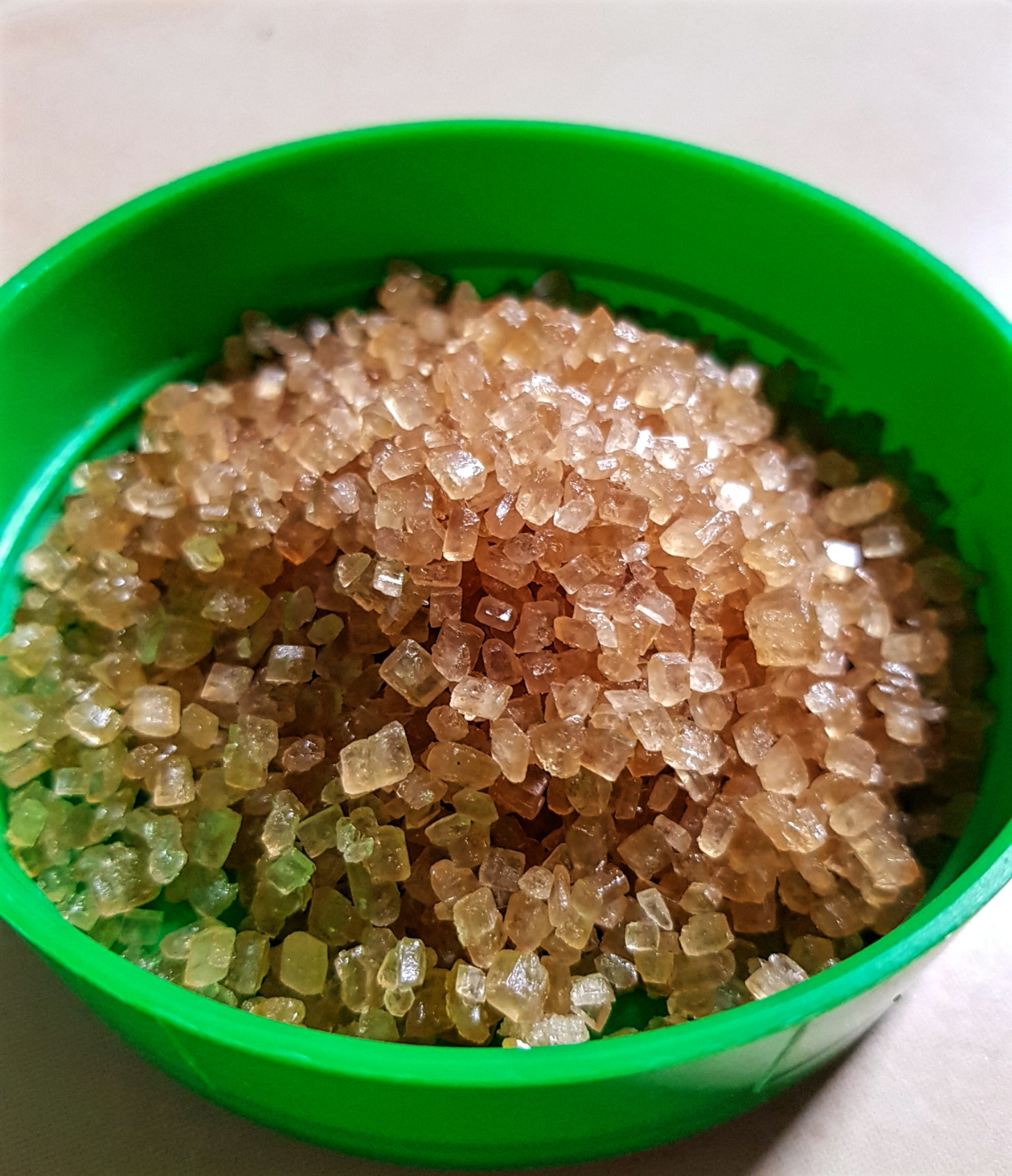 A variant of Vietnamese rock sugar